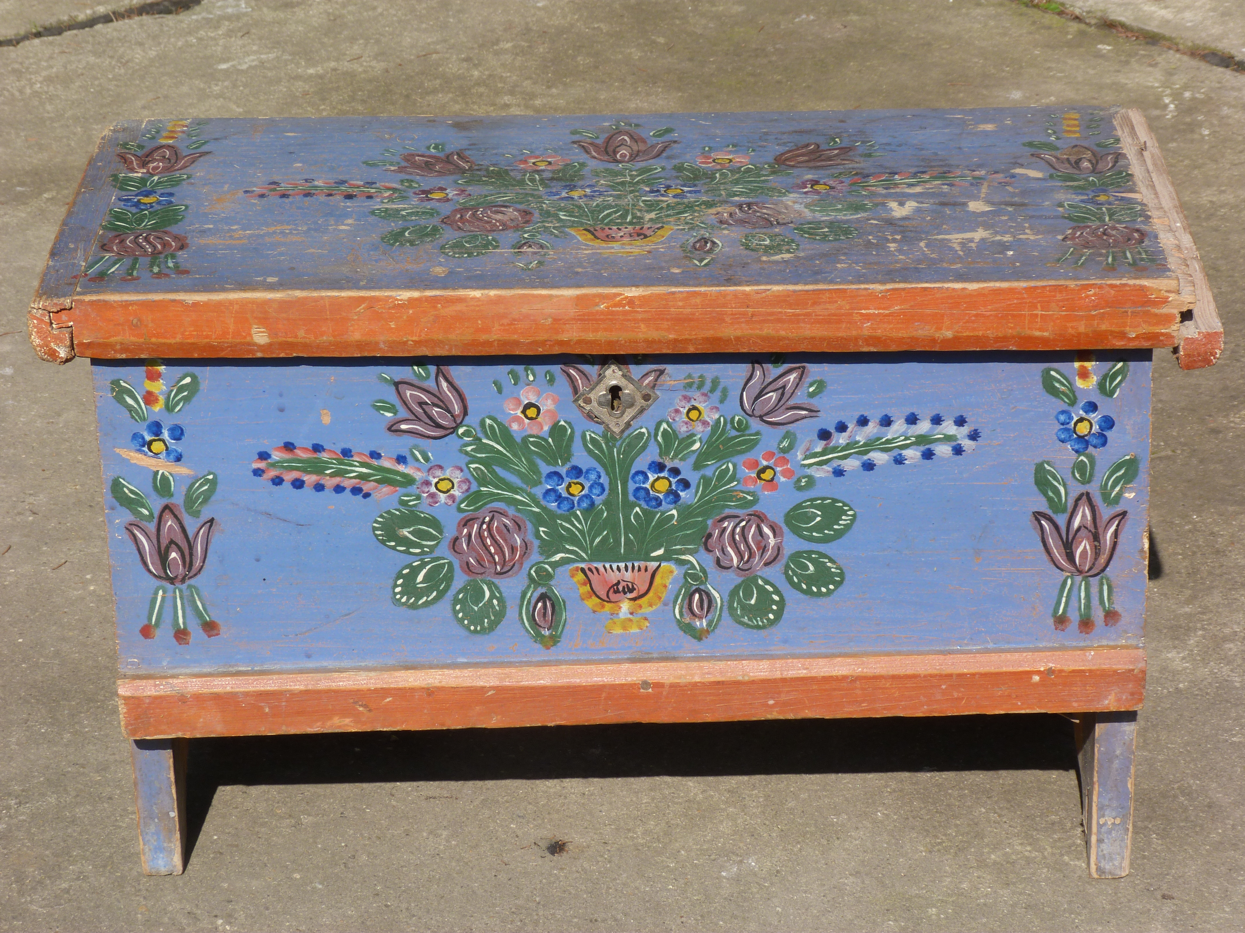 Bride's crate. Mezőföld, Hungary. Gift of Eötvös Cecilia (Balatonakarattya, Árpád út 57 szám) to the Elekes family. Crate with hungarian motifs, possible from the estate of the baron Eötvös family, Mezőkeresztes. Inside: Crate's drawer. Size: 60,5 cm x 37 cm.